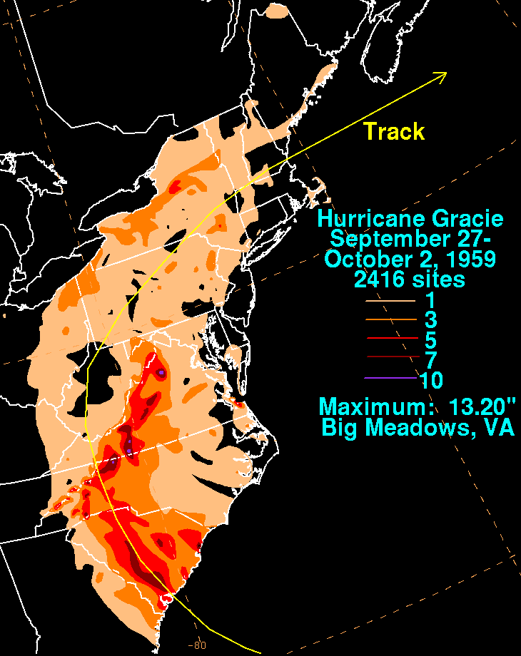 Storm total rainfall map of Hurricane Gracie during September and October 1959.